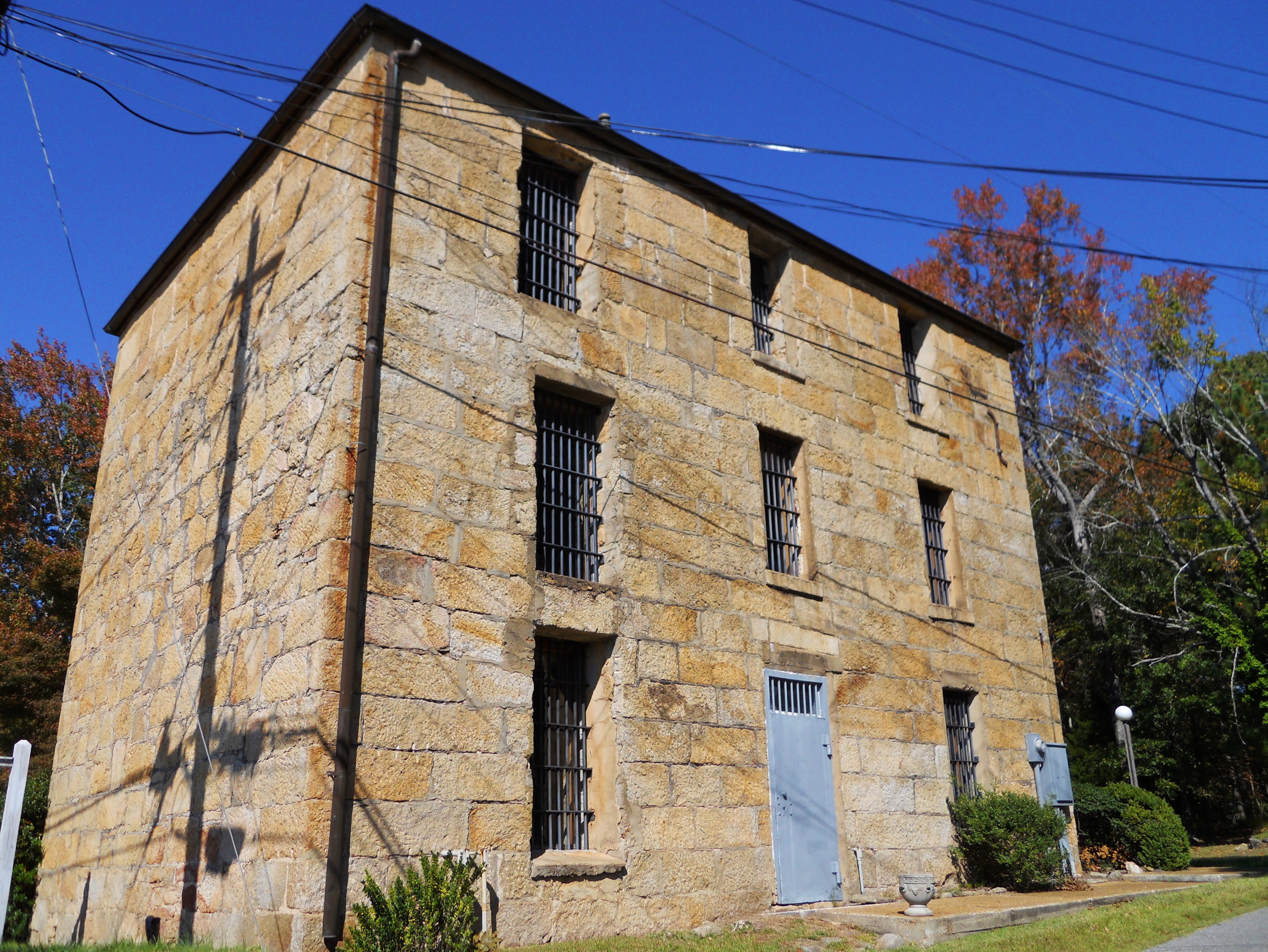 This is a photograph of the old Coosa County Jail in Rockford, Alabama